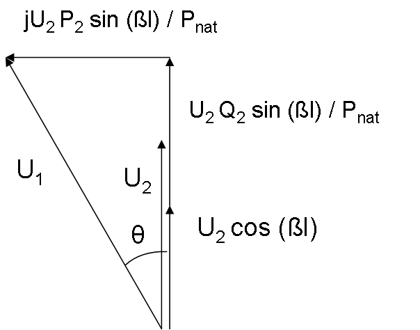 Illustration de la chute de tension en fonction de la consommation de puissance (P2) et réactive (Q2) de la charge et de l'angle de transport (ßl).